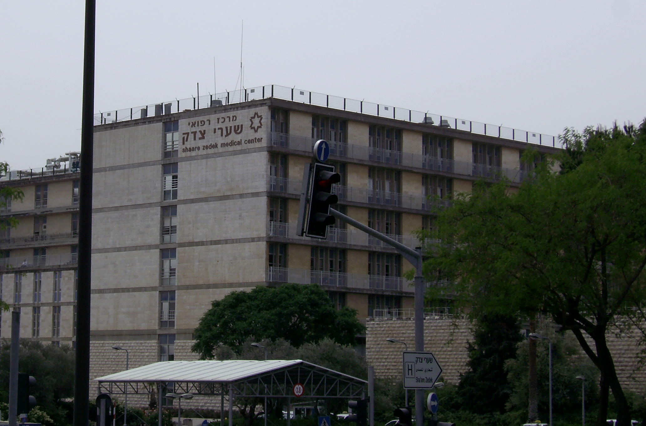 Share-Tzedek Hospital Star of David Jerusalem